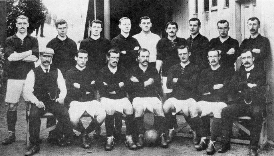 Plymouth Argyle Football Club 1903-04 Team Photo